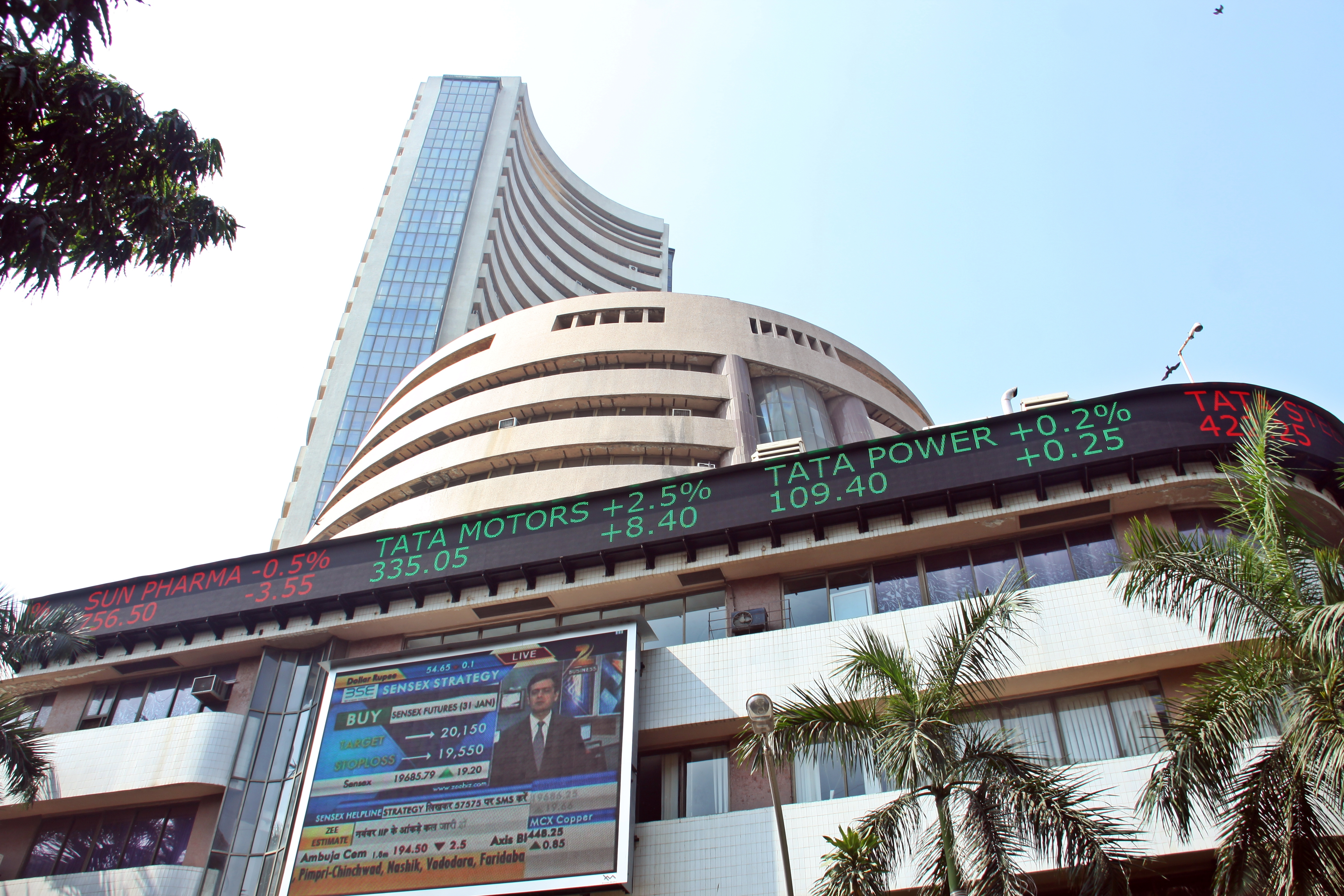 The BSE building is located at Dalal Street, Fort, Mumbai